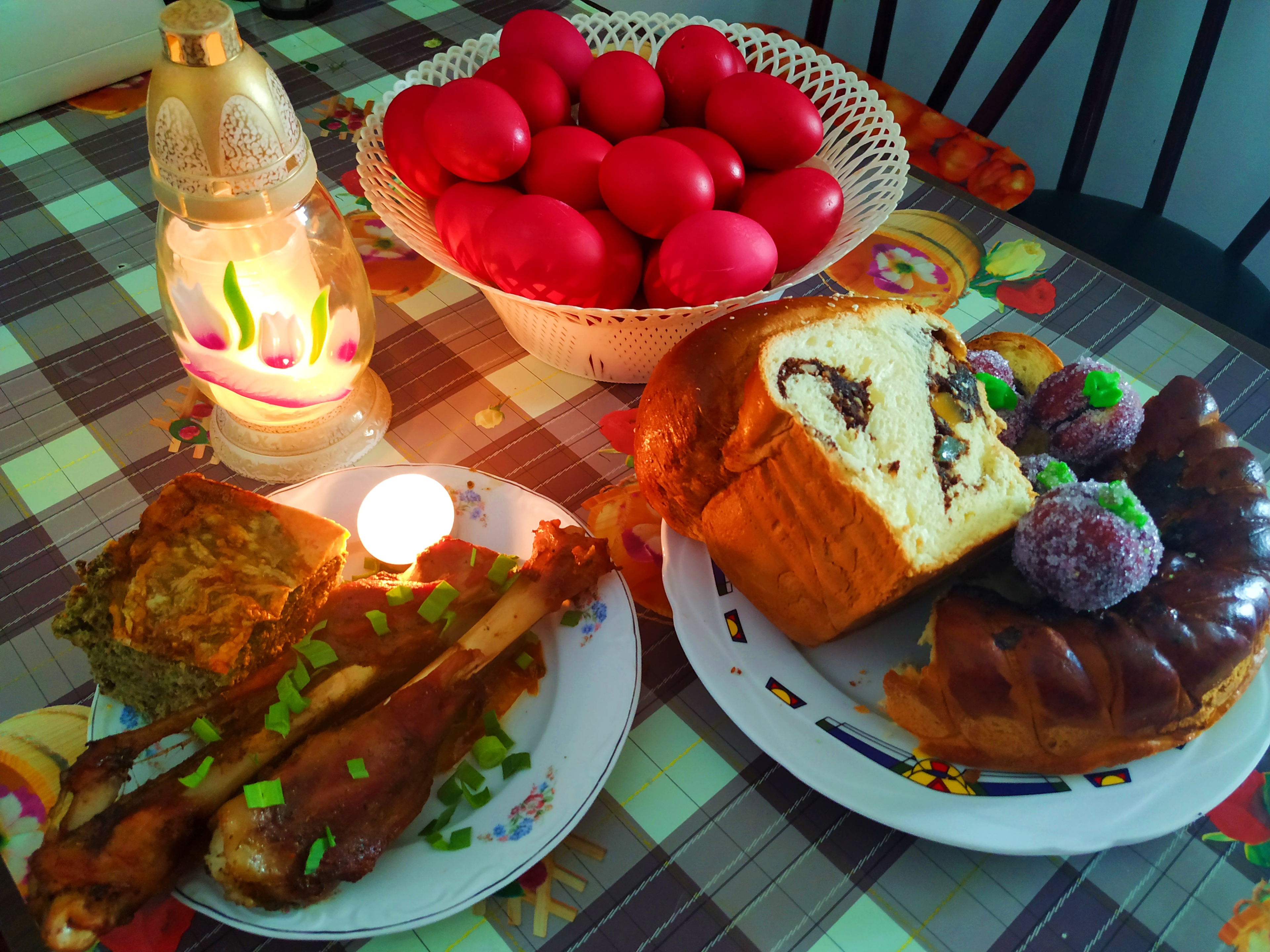 A typical Romanian Easter meal that consists of: red painted eggs, drob (made of lamb offals, green onions, herbs, eggs), friptură de miel (lamb steak), cozonac (sweet leavened bread) and pască (panettone-like bread filled with cheese).